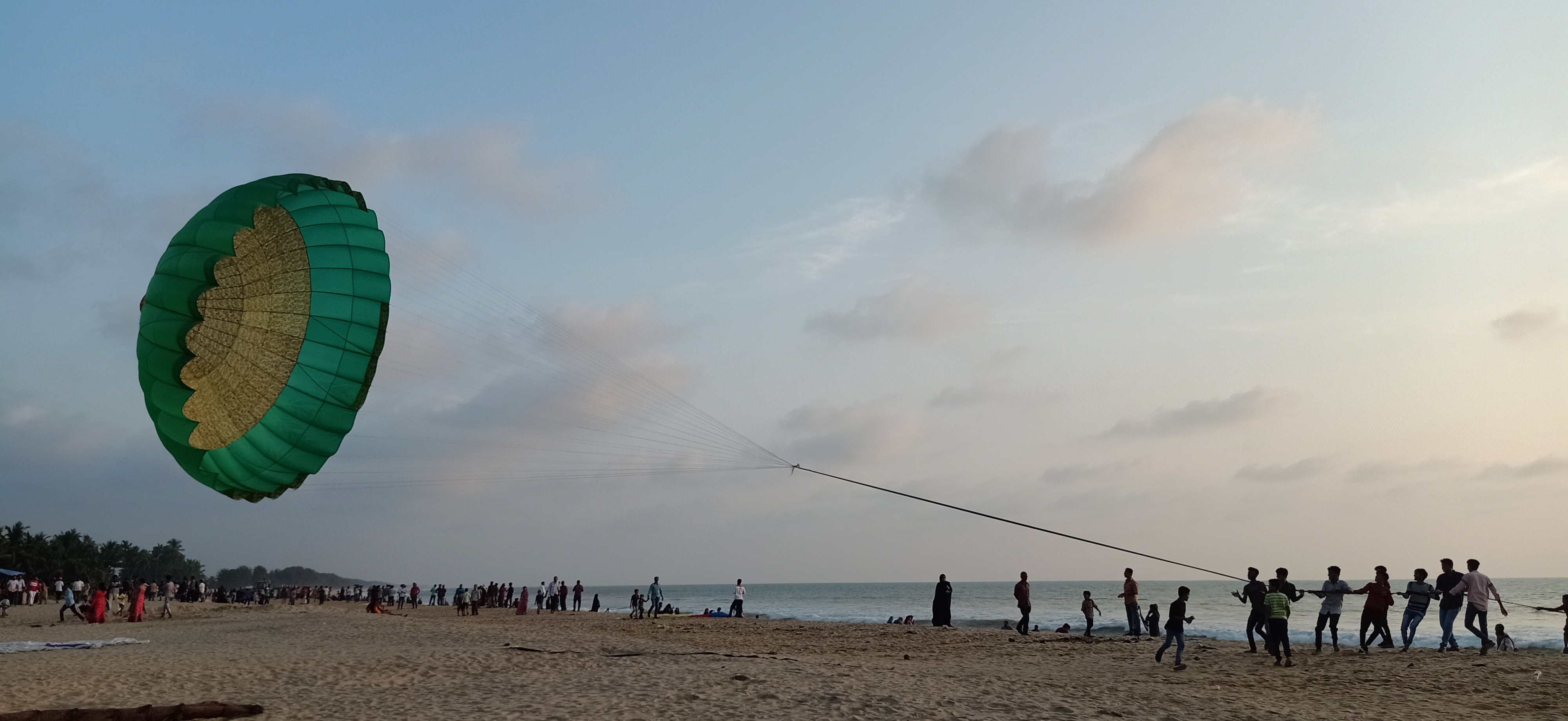 Kite festival at Bekal Pallikkara Beach of Kasaragod Dist in connection with the Kerala State School Kalolsavam November 2019